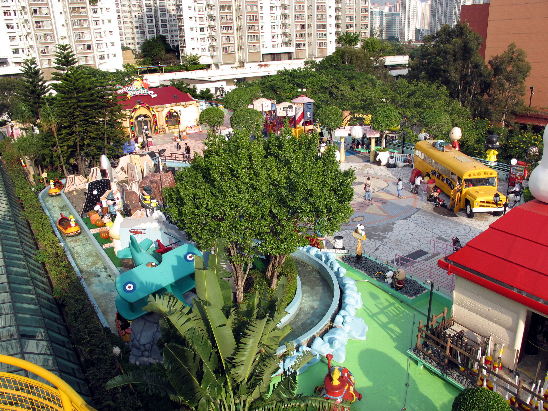 HK Snoopy World 史諾比開心世界